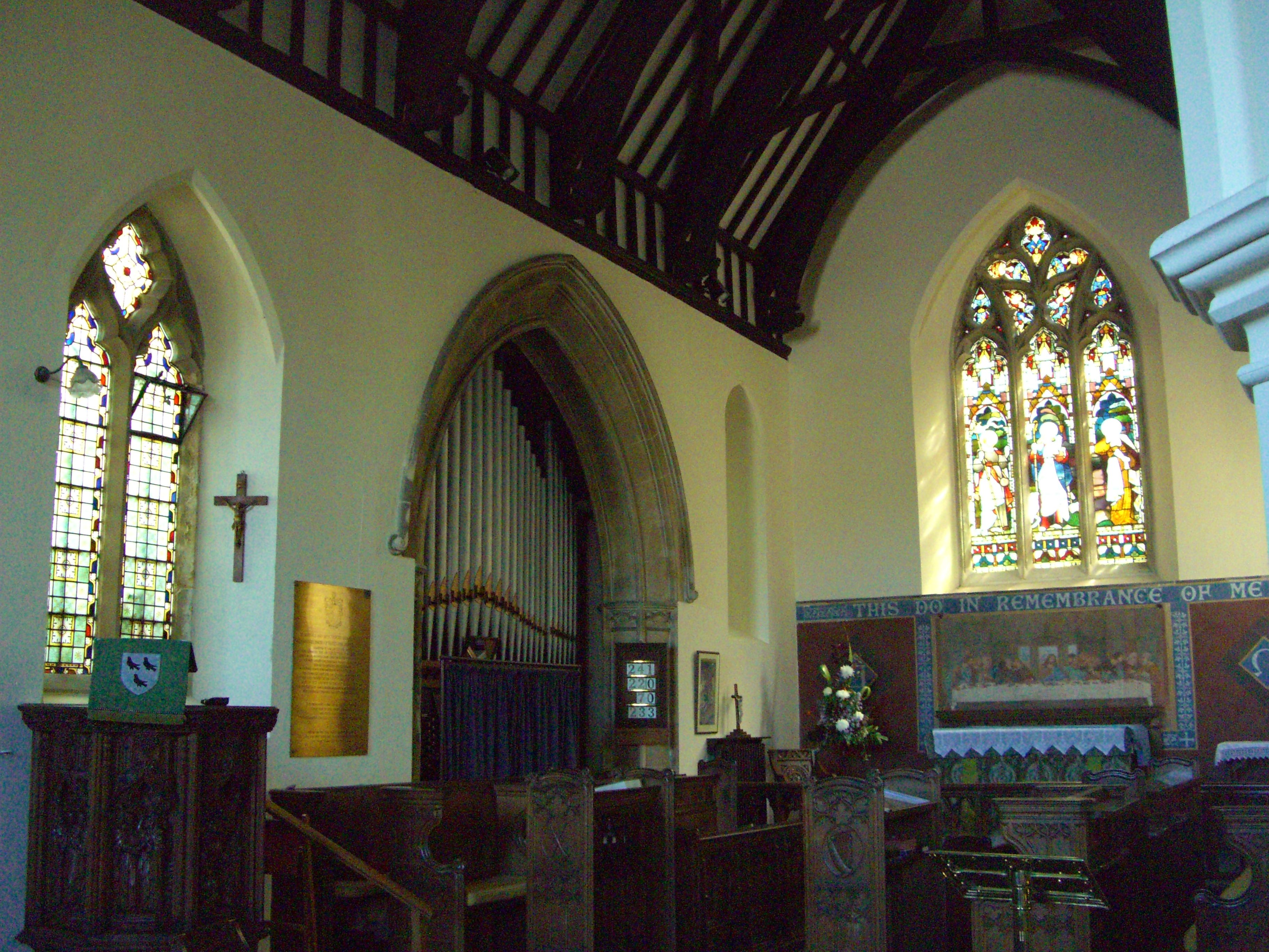 The interior of St Thomas of Canterbury church in Kingswear, Devon